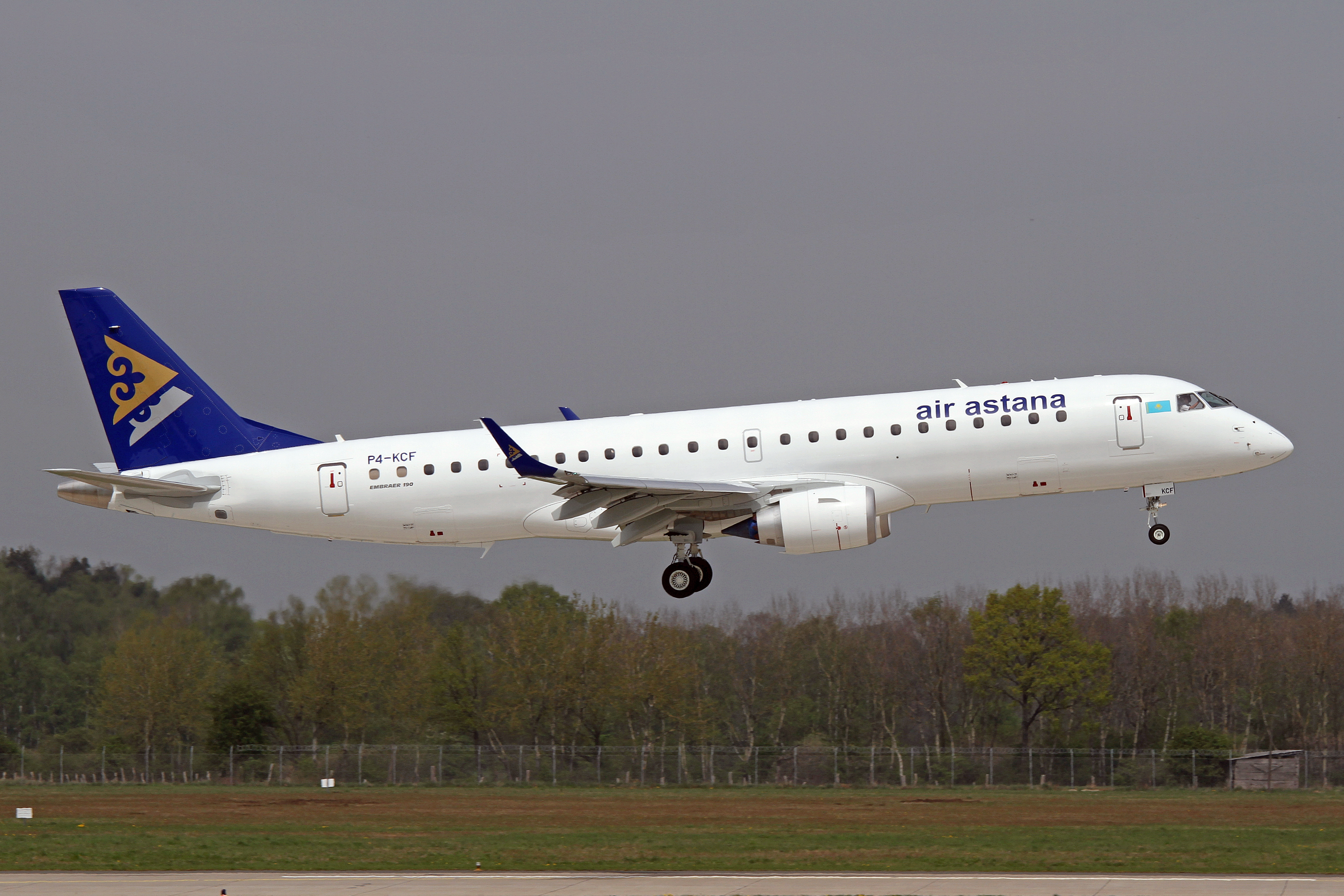 HAJ/EDDV 29-04-12 delivery flight to Almaty